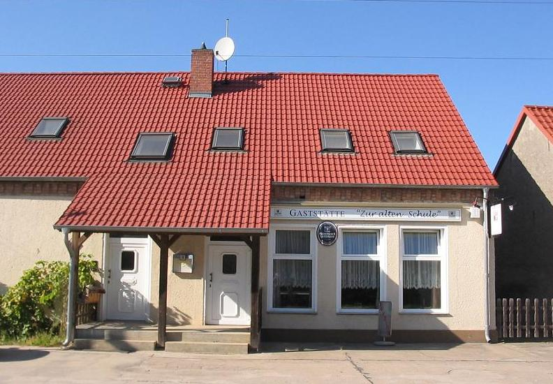 Dorfstraße (german for villagestreet ) No. 17 in Gömnigk. The village Gömnigk is a part of the town Brück in the district Potsdam Mittelmark, state Brandenburg, Germany, at the border to the natural preserve Naturpark Hoher Fläming.